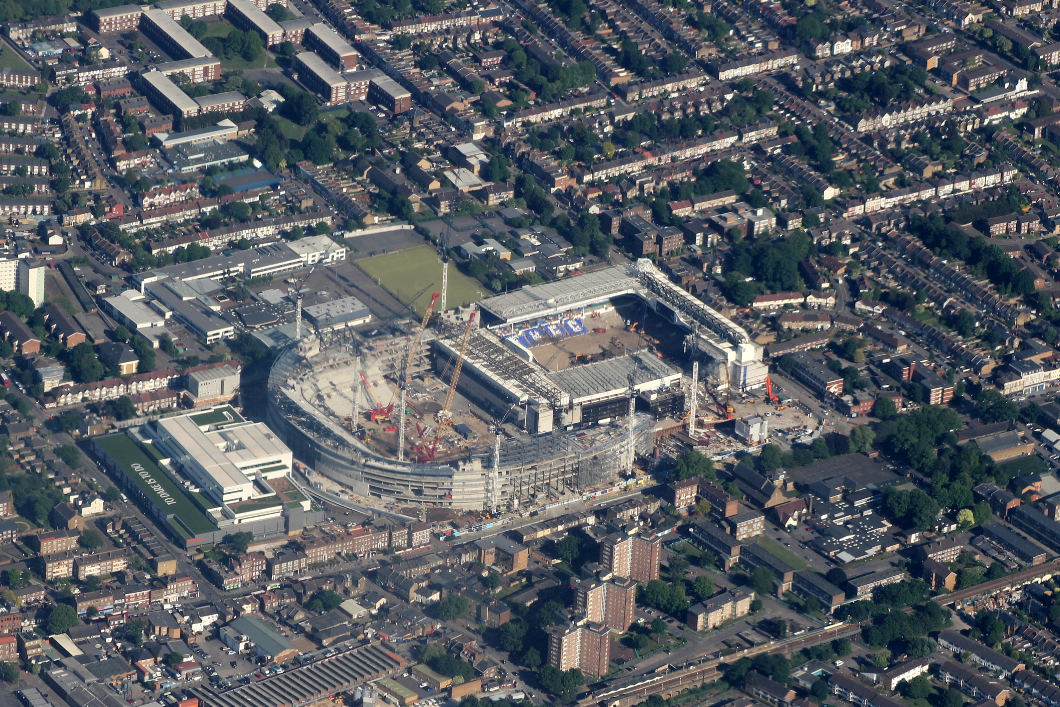 The Northumberland Development Project and the old White Hart Lane